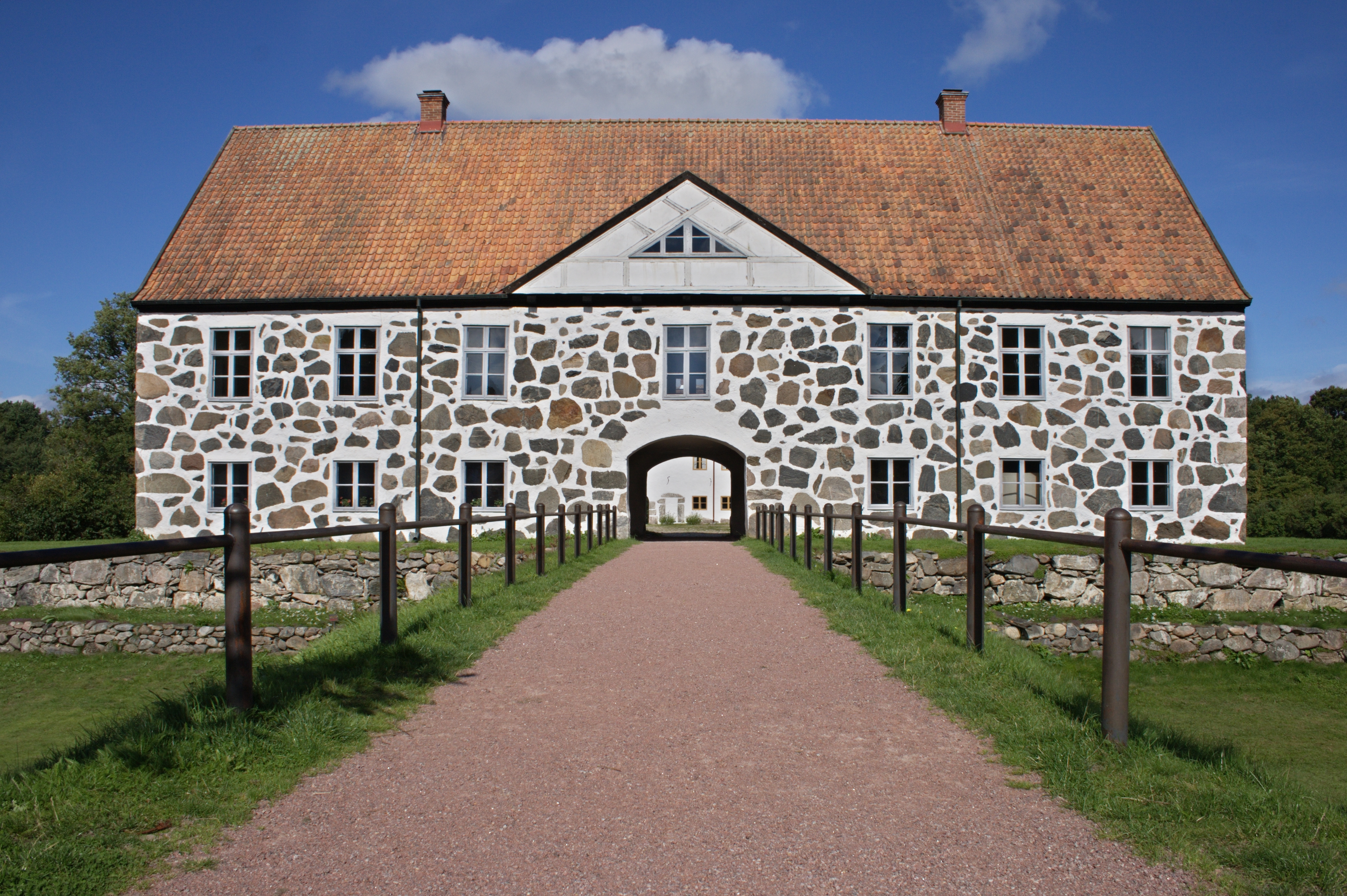 Hovdala Castle, ca. 7 km south of Hässleholm, Sweden. Built in the 15th and 16th century.